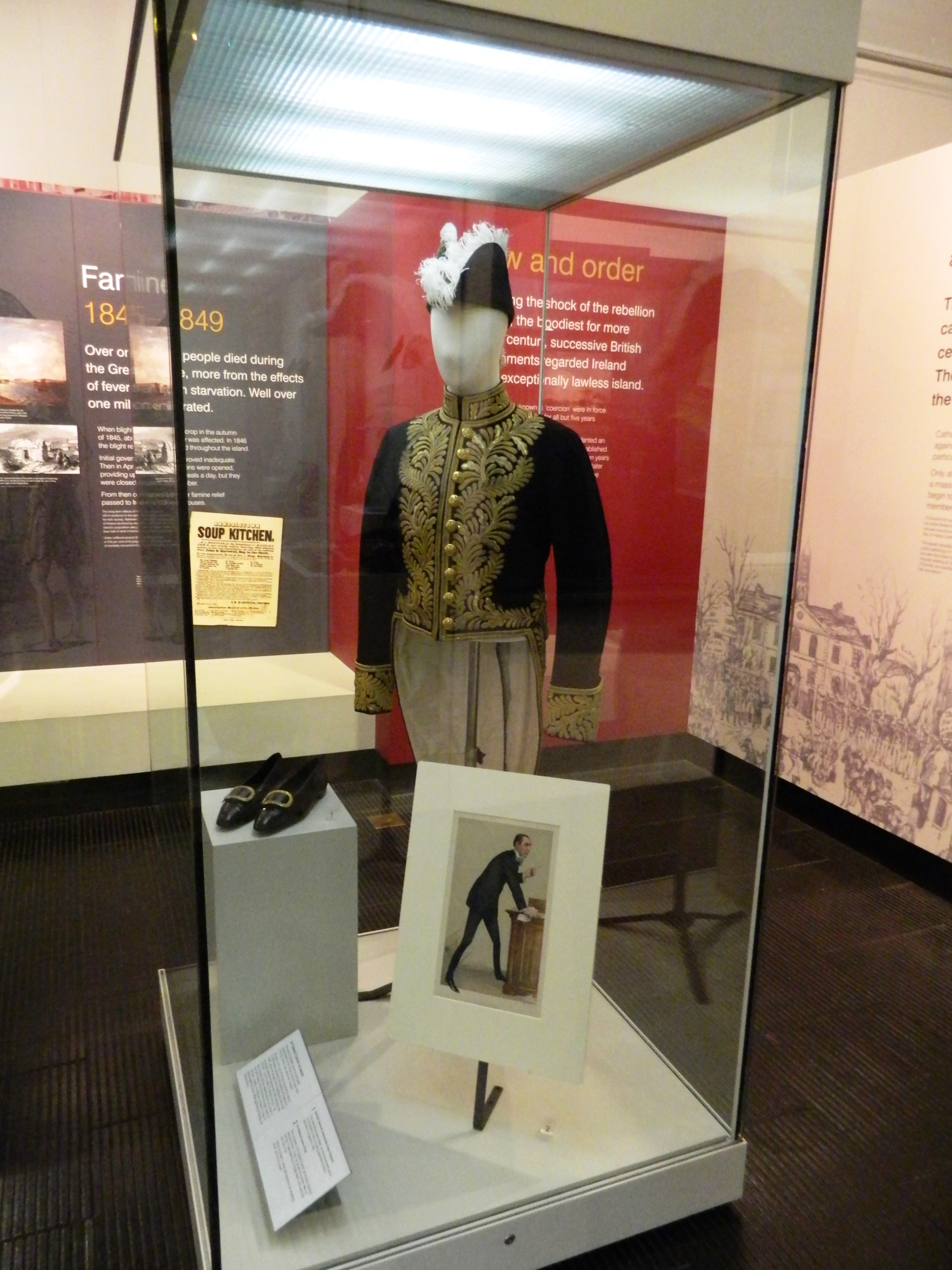 Solicitor General Ceremonial Dress Uniform. Worn by Sir Edward Carson on being appointed Solicitor General for England in 1900. In the Ulster Museum.